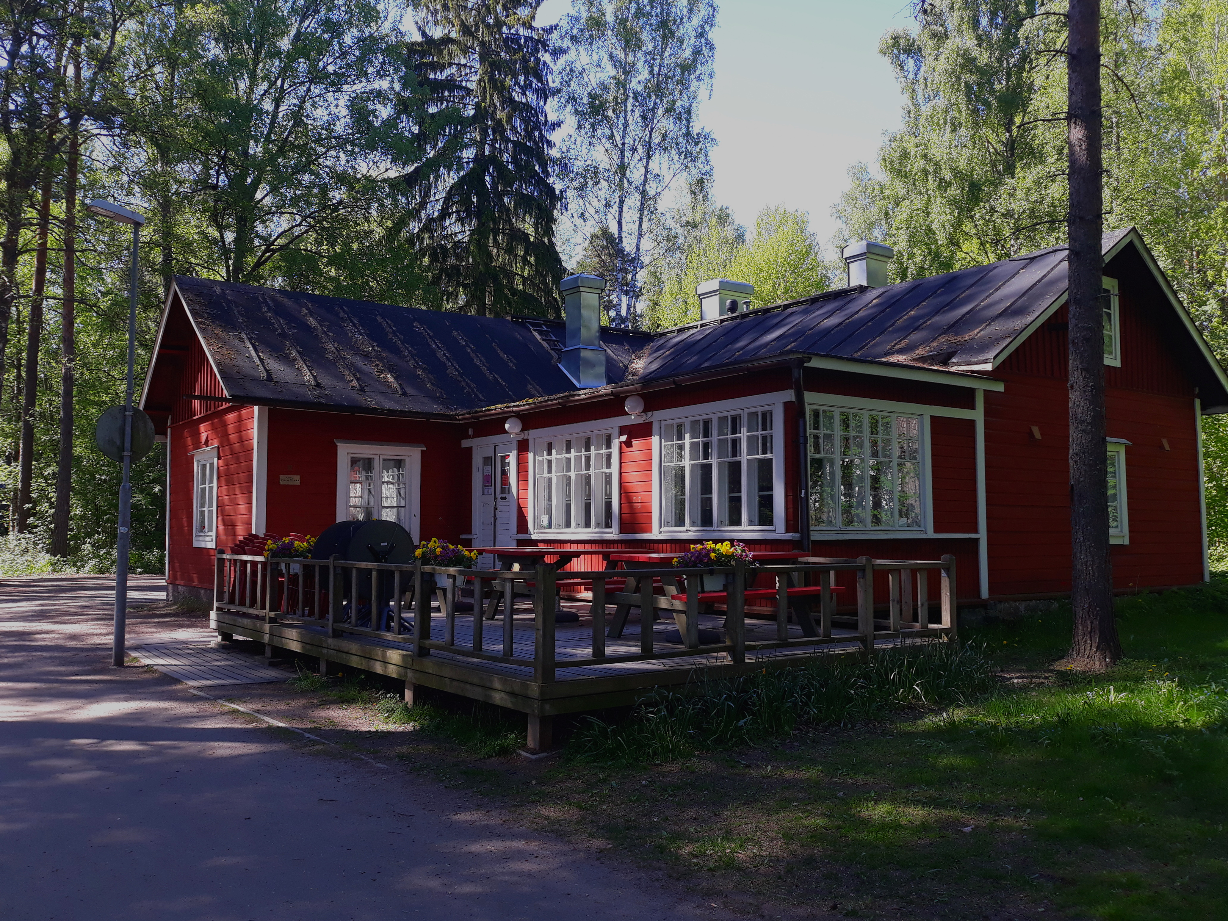 Cafe Villa Ullas in May 2020.